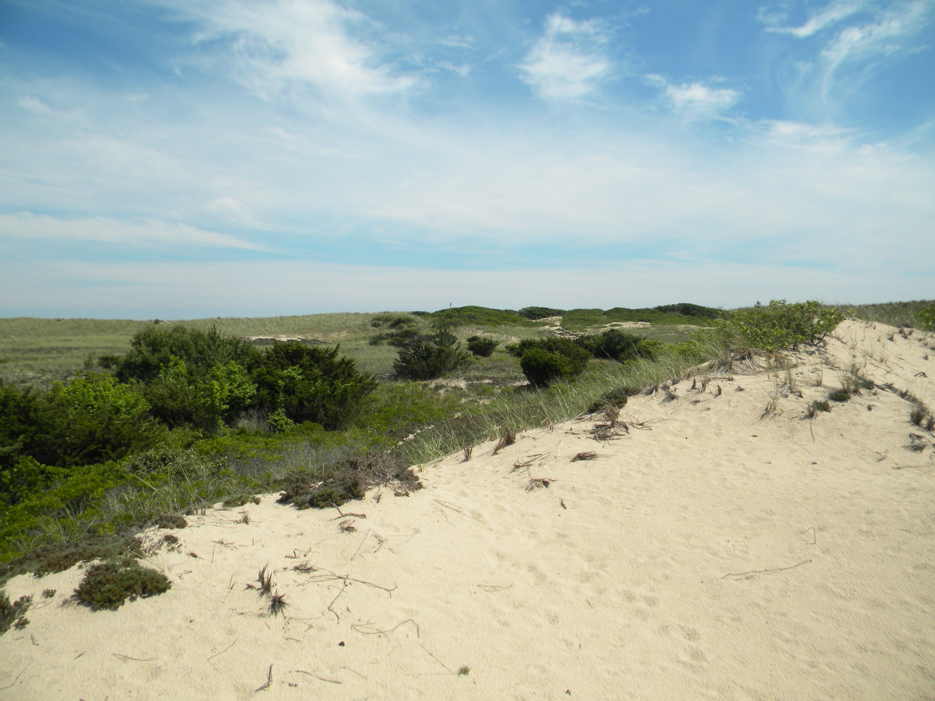 Dunes at Amagansett National Wildlife Refuge. Credit: USFWS